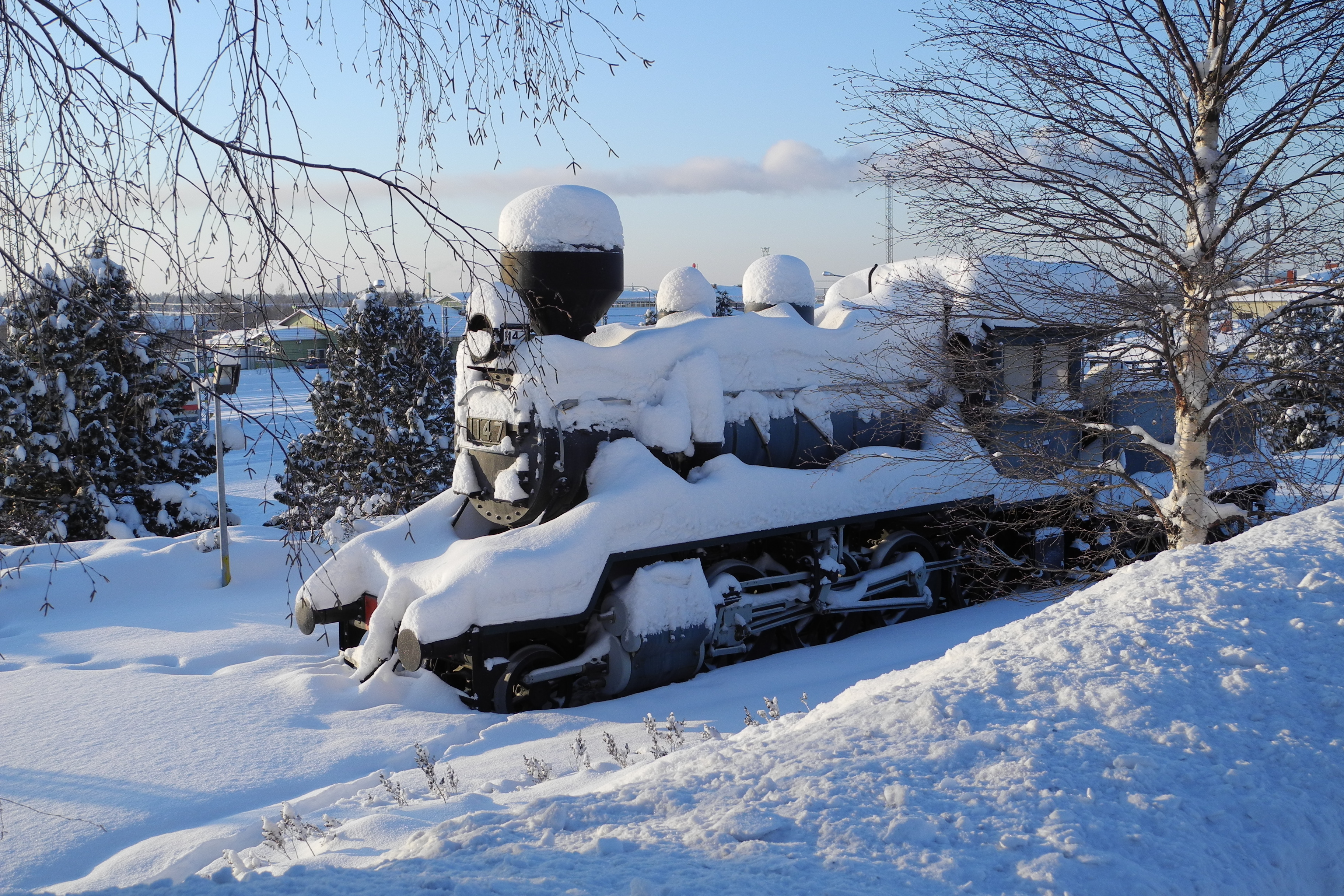 A preserved VR Class Tk3 steam locomotive (no. 1147) covered with snow at Rovaniemi railway station in Rovaniemi, Finland.